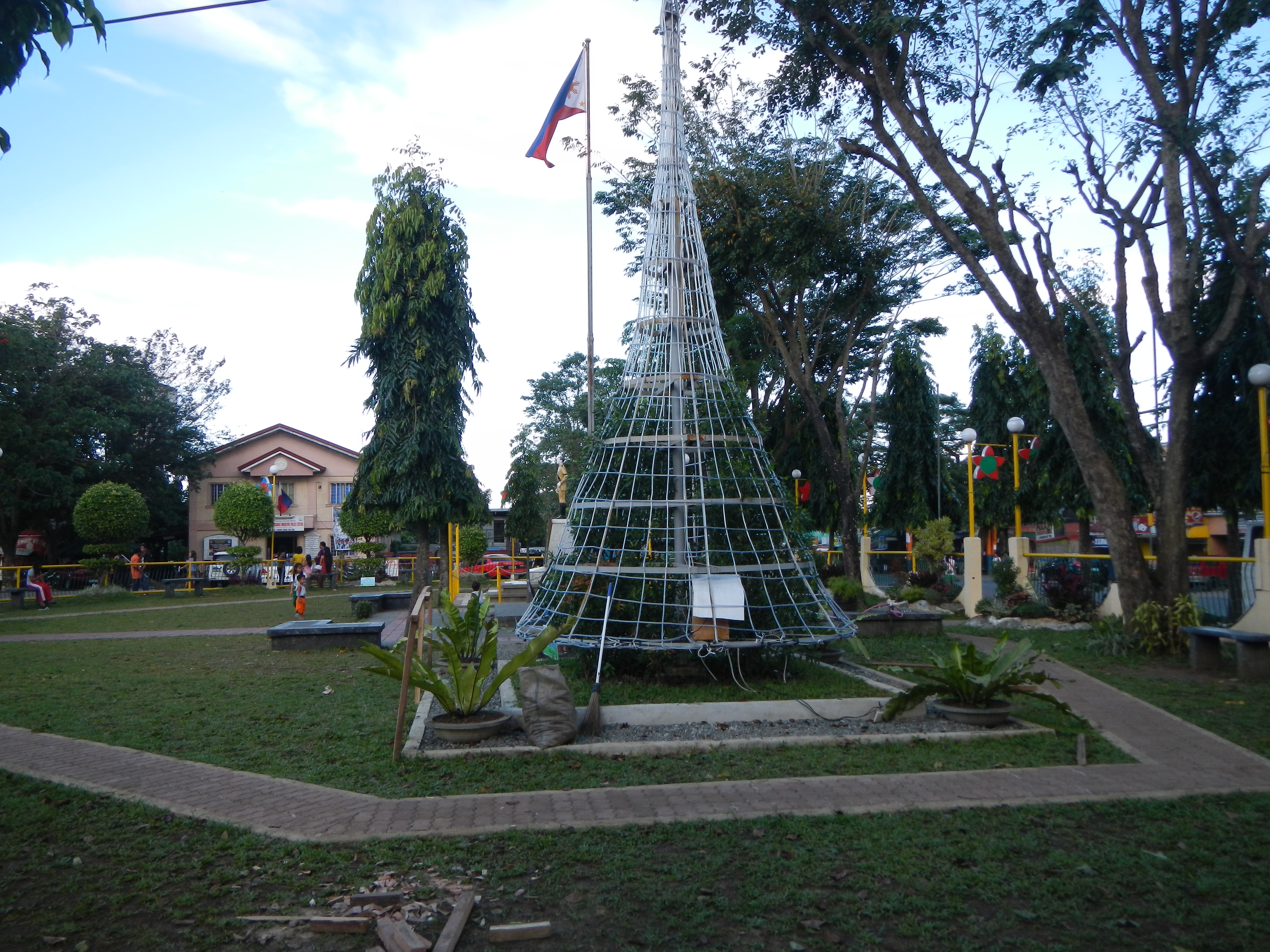 Upload Wizard photos -- (General description, 3-dimension angle by angle photography of this town, church & landmarks) -- General Mariano Alvarez, Cavite[1] ( an urban municipality in the province of Cavite, Philippines; 2010 census, it has a population of 138,540 people in an area of just 11.40 square kilometers, named after General Mariano Álvarez[2], a native of the town of Noveleta, Cavite; with 27 barangays, with its University of Perpetual Help System JONELTA - GMA Campus [3]) - GMA area, that is, Poblacion I and 2, Town Proper, downtown, centro, along the GMA National Road Website, General Mariano Alvarez Town Hall, Century Savings Bank building, GMA Public Market.